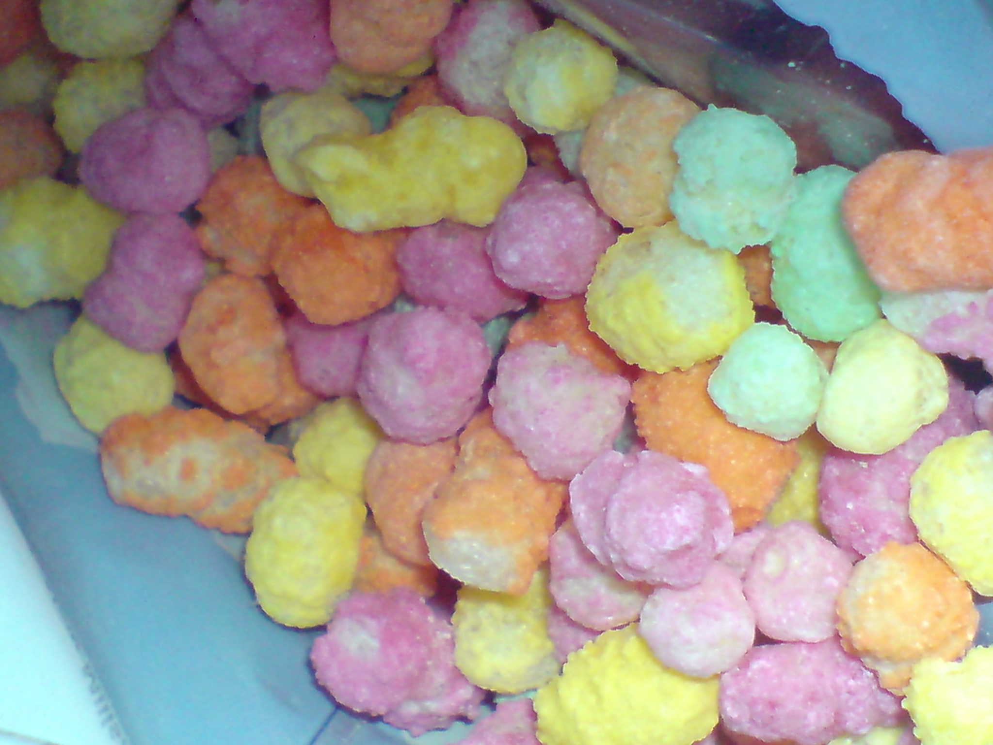 Close-up image of Rainbow Drops confectionery.